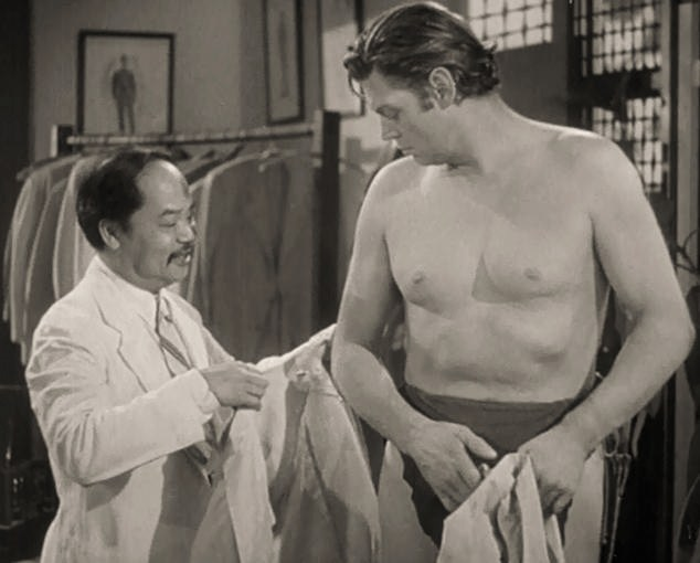 Willie Fung (left) & Johnny Weissmuller in Tarzan's New York Adventure - trailer (cropped screenshot)